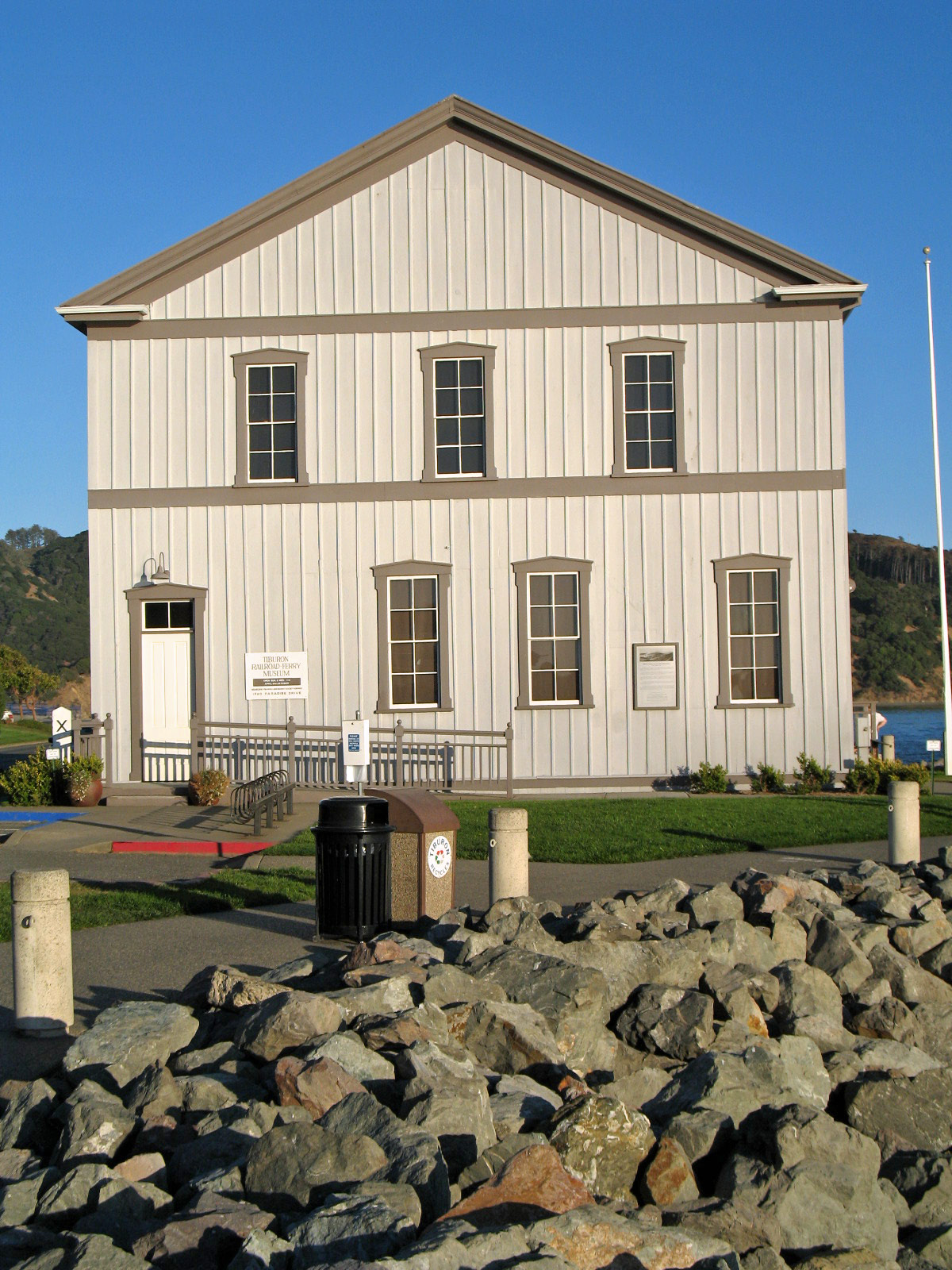 National Register of Historic Places listings in Marin County, California. San Francisco & Northern Pacific Railroad Depot, 1920 Paradise Dr., Tiburon, CA. Photographed September 6, 2009 from the grounds to the west of the building.